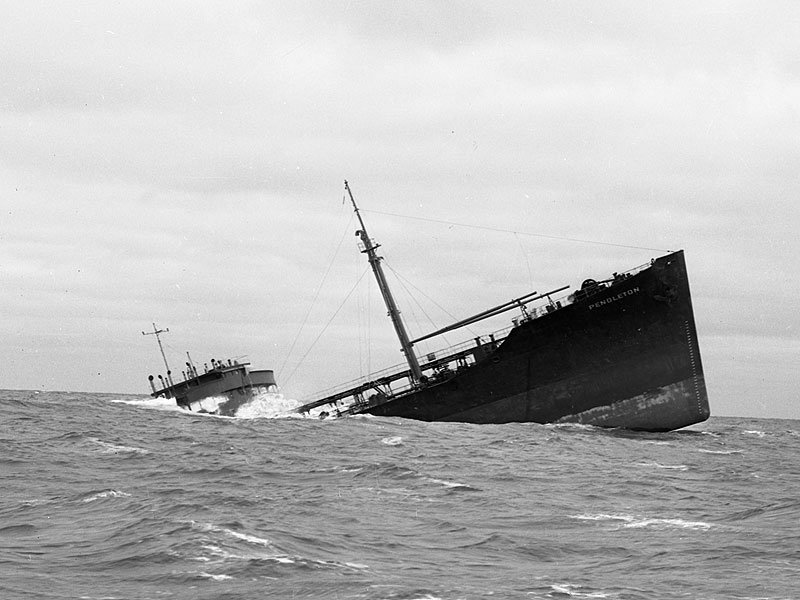 Bow section of tanker SS Pendleton grounded near Pollock Rib [sic, correctly 'Rip'] liteship [sic, correctly, lightship] six miles off Chatham, Mass on the morning of Feb. 19, 1952."[1]